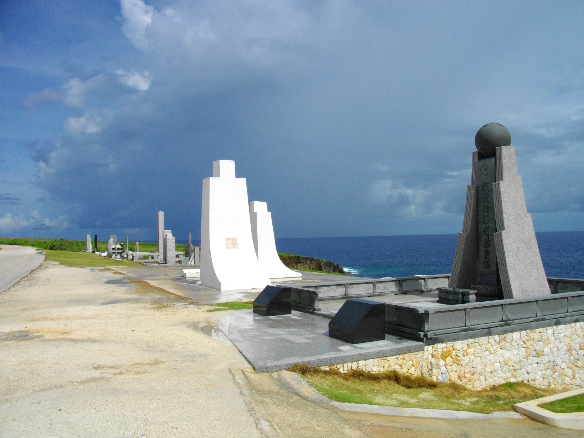 Banzai Cliff Cenotaphs